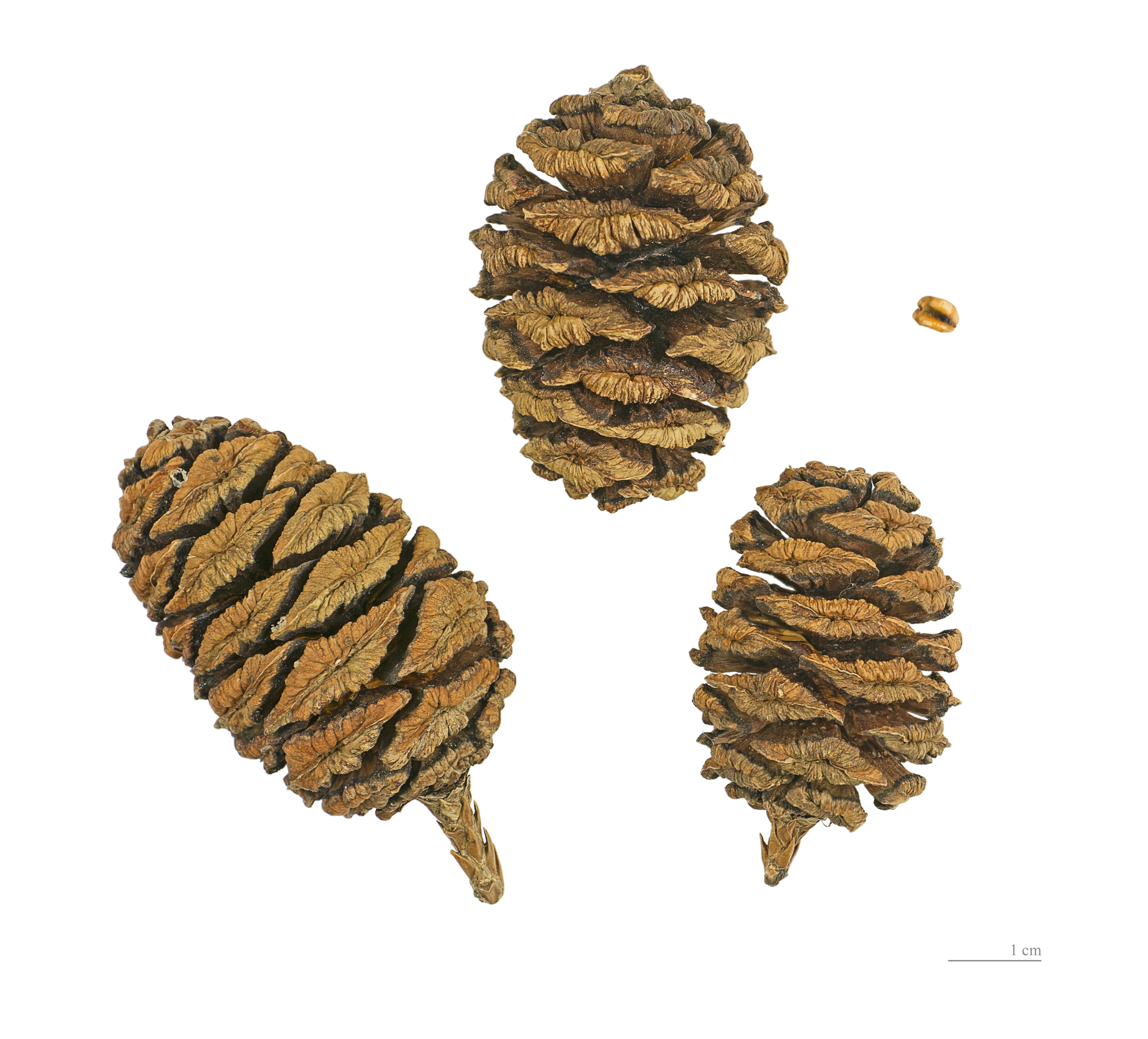 Conifer cones and seed Giant sequoia